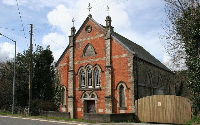 Disused Bible Christian Chapel. The plaque above the front windows reads "Bible Christian Chapel 1890". It is an unusually large and ornate building for a Bible Christian place of worship, much more in the Wesleyan style.